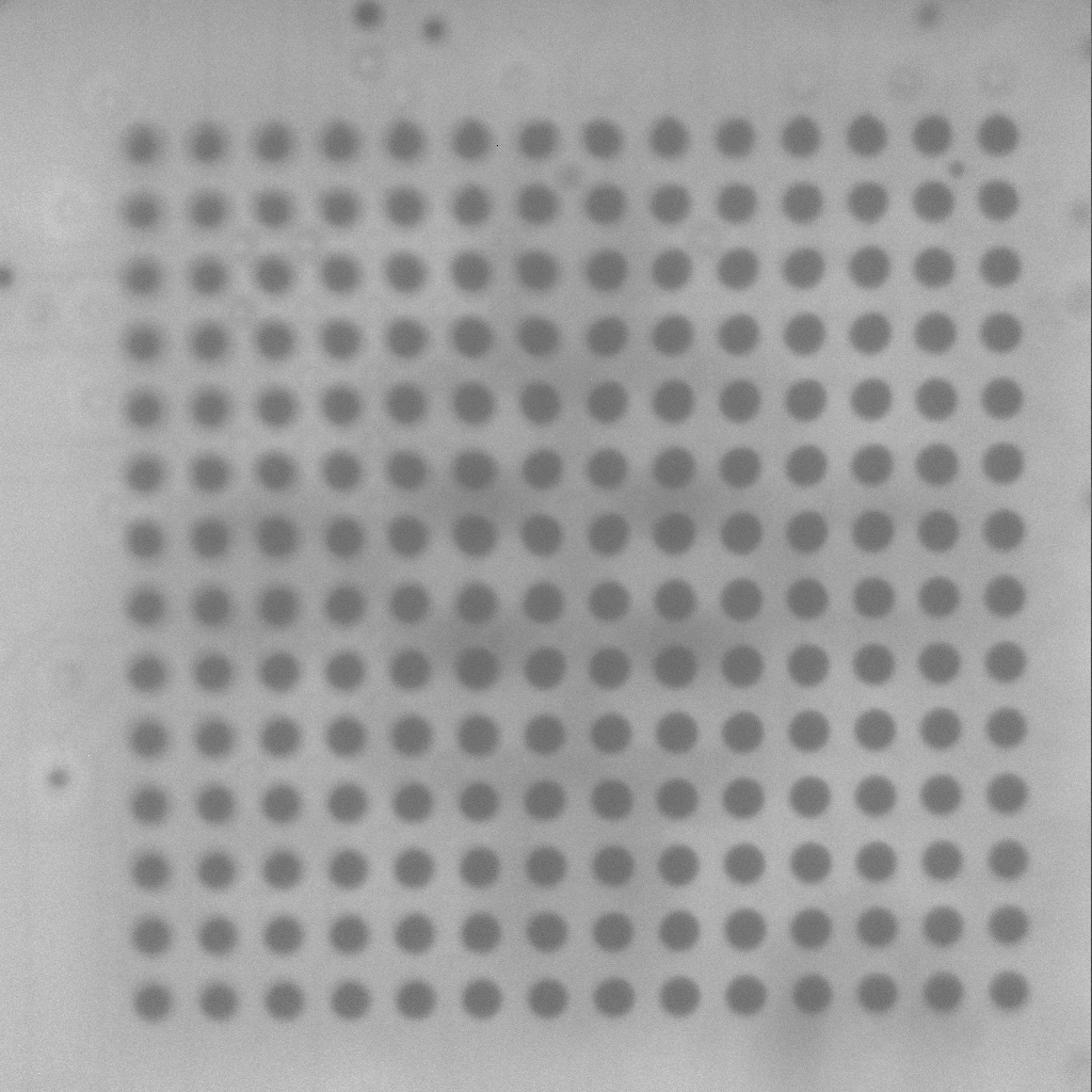 X-ray picture of a Ball grid array type integrated circuit mounted on a Printed circuit board